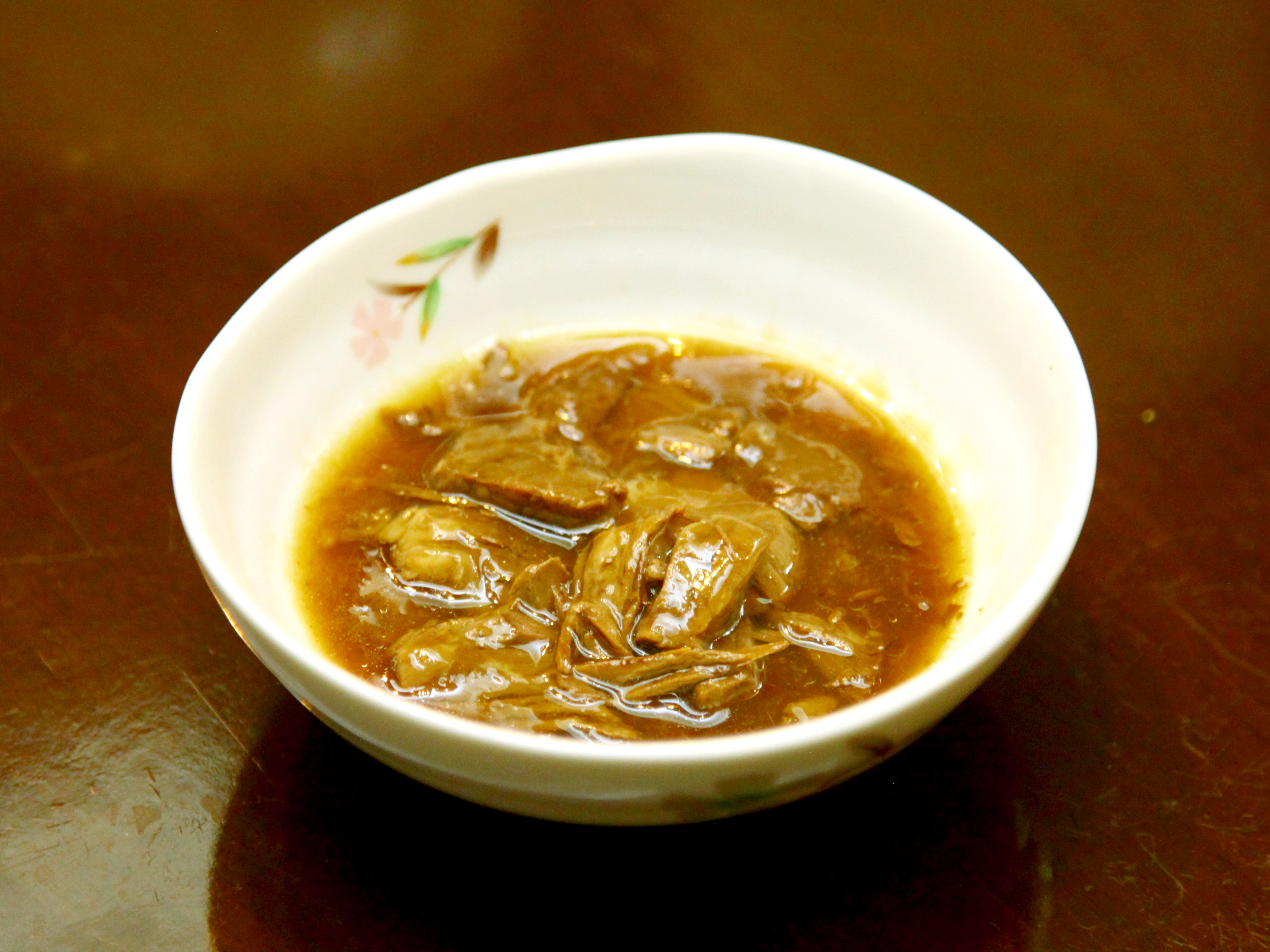 A dish of beef yamatoni.